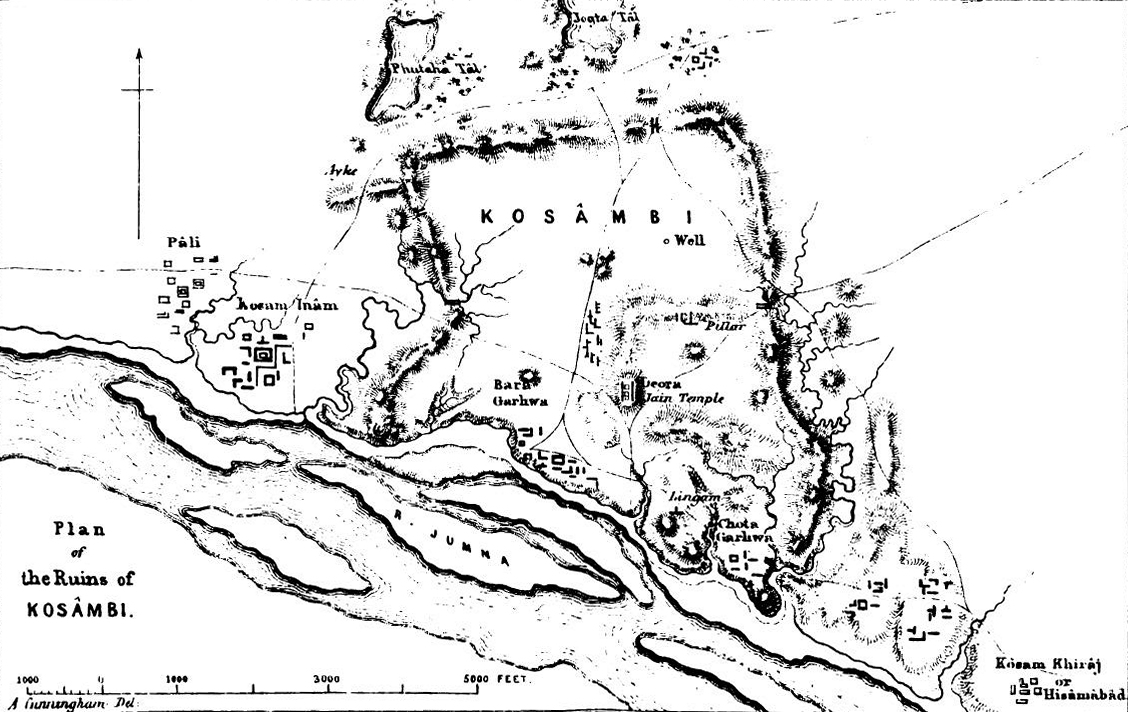 Kosambi ruins map